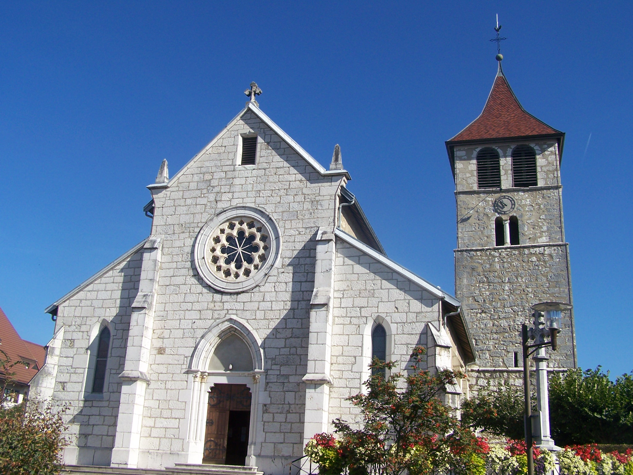 Sight of the commune of Poisy church, situated near Annecy in Haute-Savoie, France.